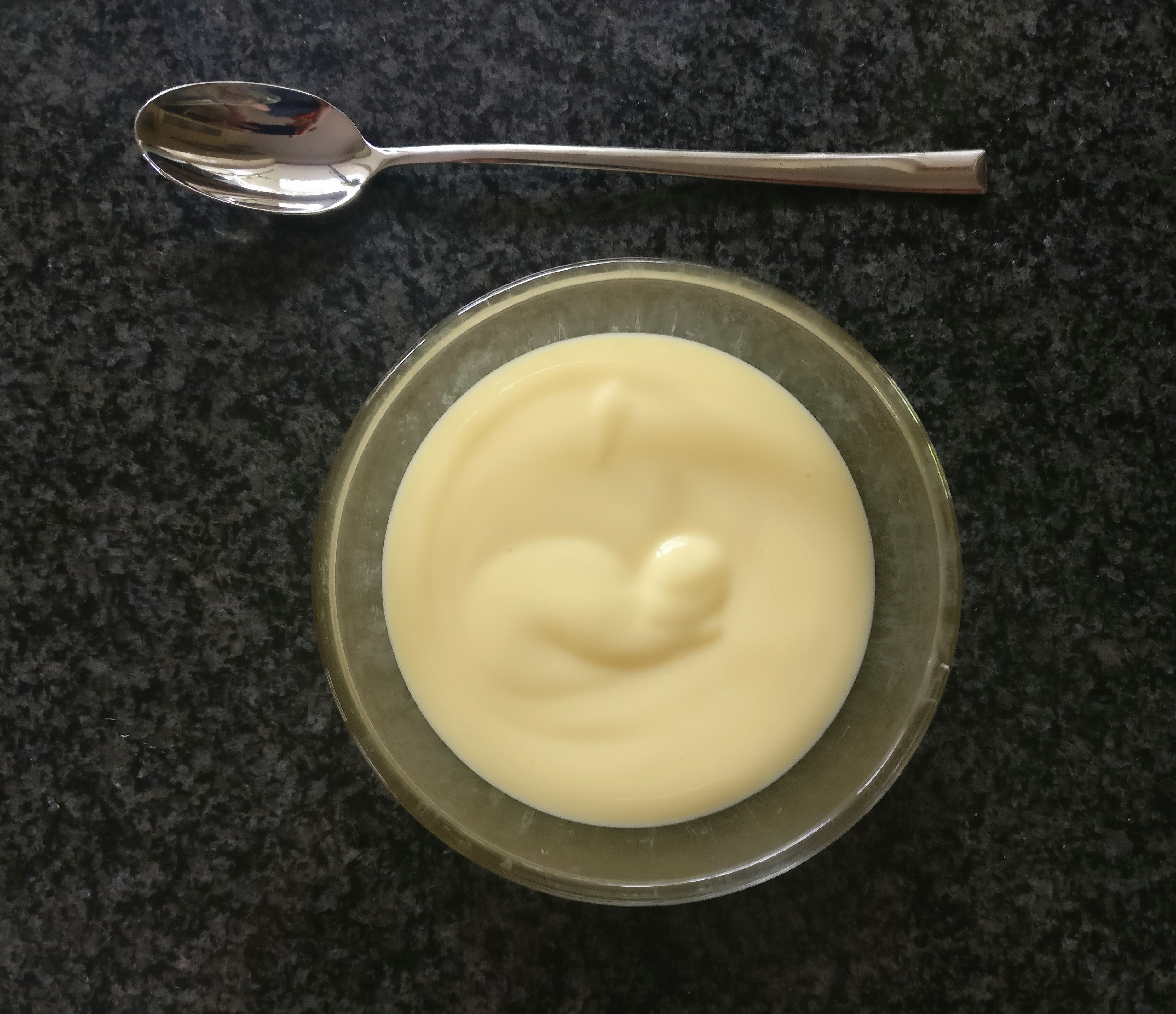 Vanilla vla dessert